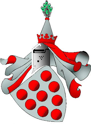 Coat of arms of Forst, part of the city of Aachen, based on the coat of arms of the lords of Schönau (later: Schönforst